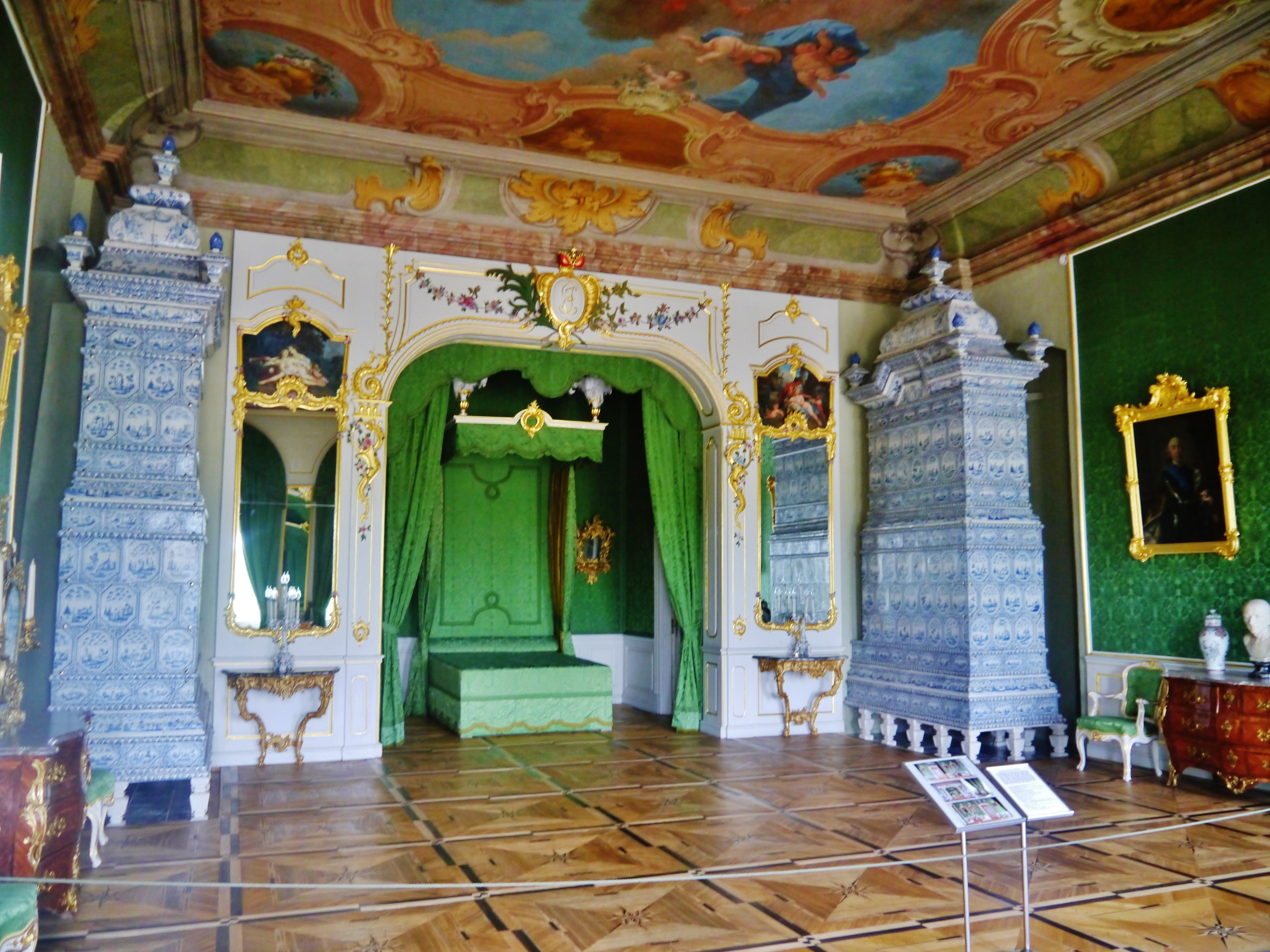 Sleeping room of the Duke of Rundale Palace, Bauska, Latvia